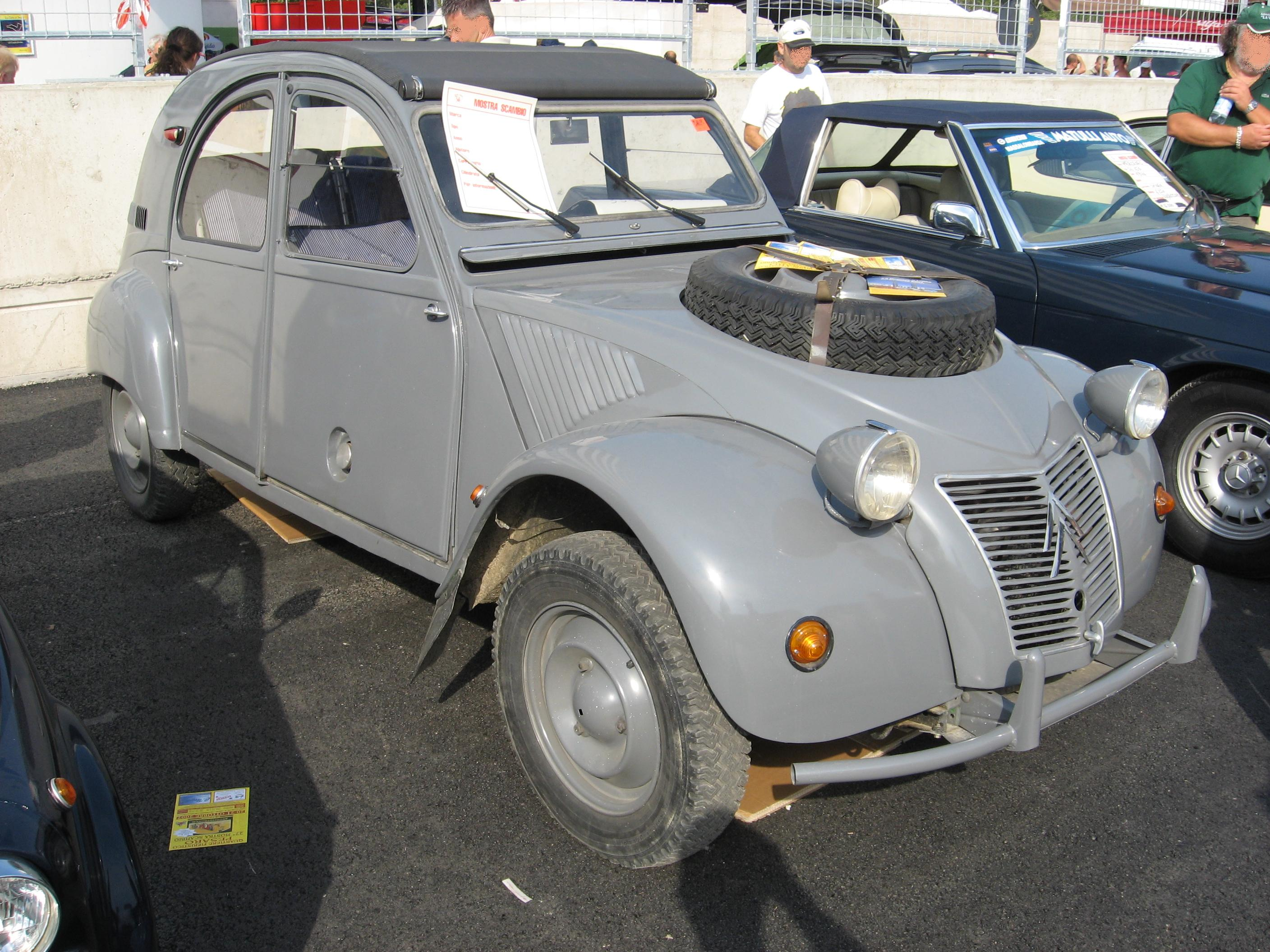 Subject: Citroën 2CV 4x4 Author: Luc106 Date: September 23rd, 2007 Place/Country: Imola Circuit (BO), Italy I release all rights in the public domain.